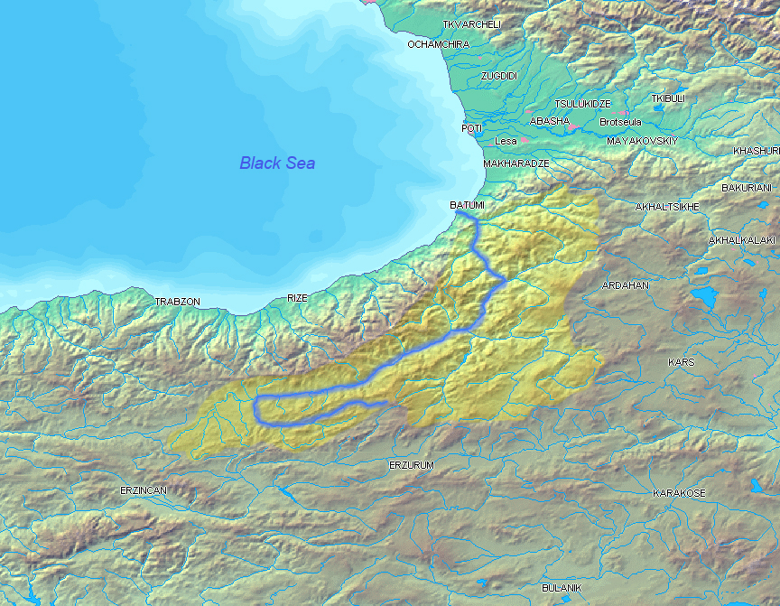 Map of the Çoruh River, whose watershed drains much of the Caucasus region in Turkey and Georgia into the Black Sea